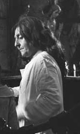 Argentine actress Blanca Lagrotta in a scene from the film El fantástico mundo de la María Montiel.